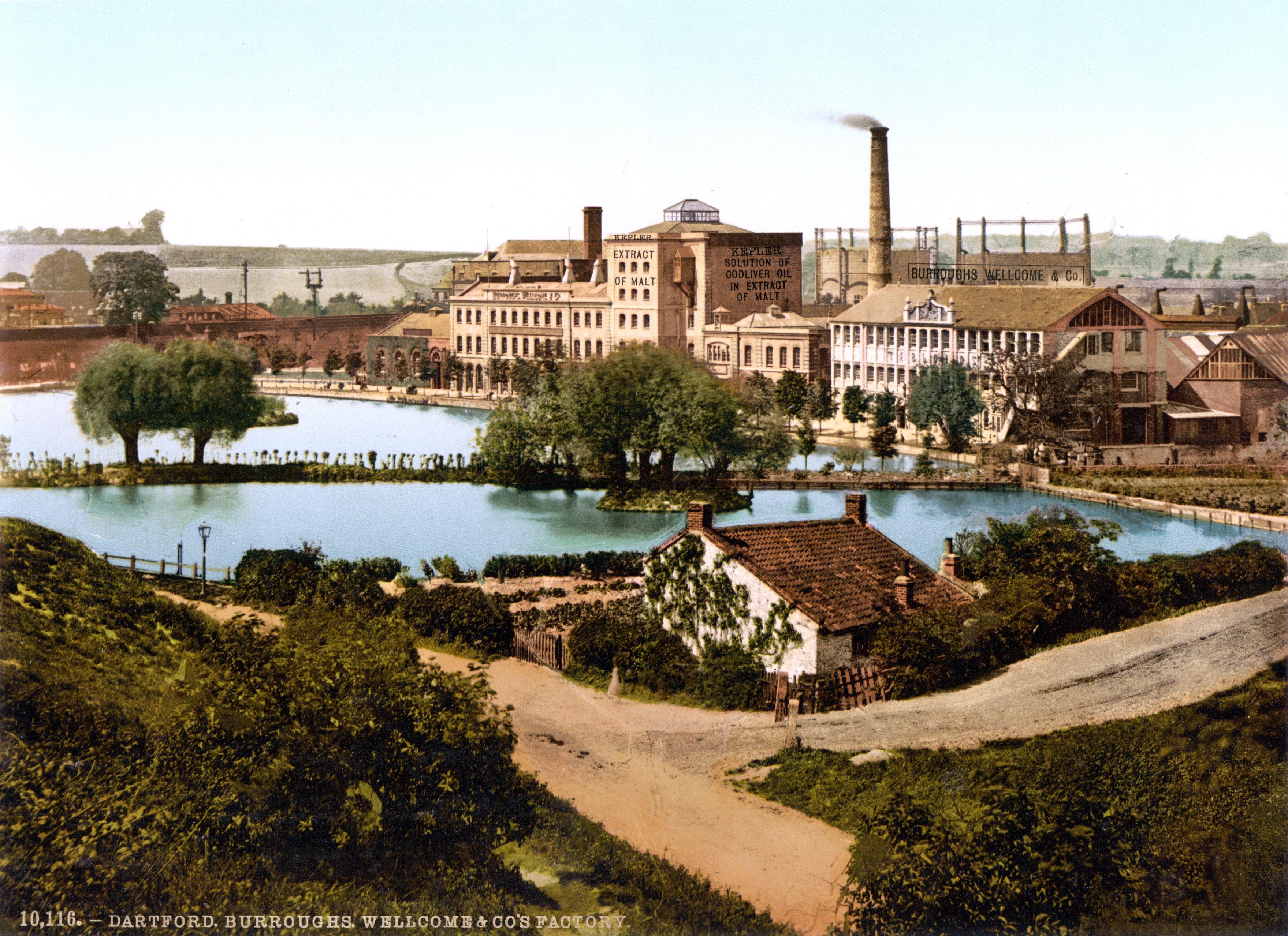 Dartford, Messrs. Burroughs, Wellcome & Co.'s factory, London and suburbs, England